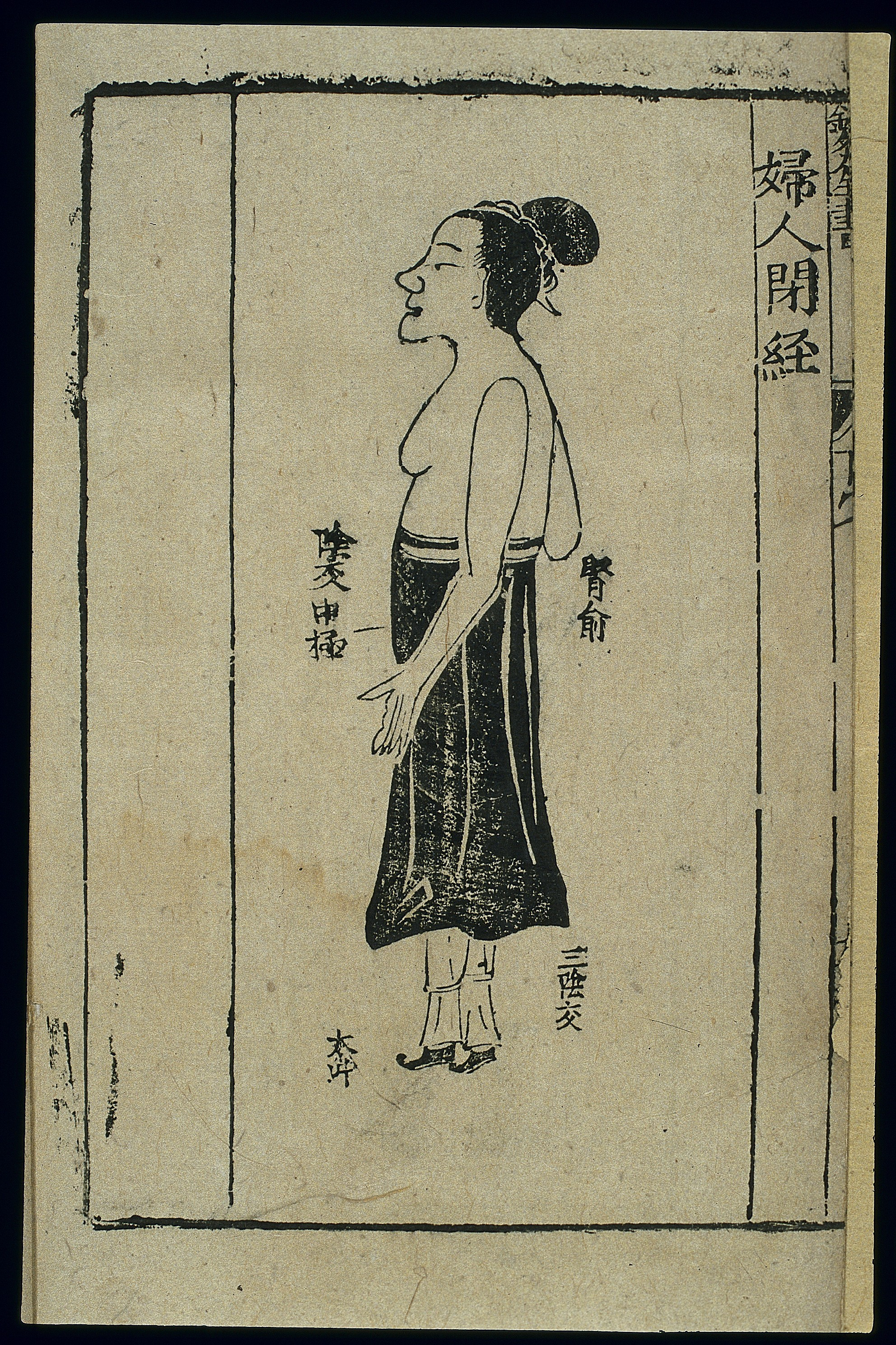 Woodcut illustration from an edition of 1591 (19th year of the Wanli reign period of the Ming dynasty), showing the acu-moxa locations commonly employed in the treatment of amenorrhoea (bijing). See 'Lettering' for full list of point names. Wellcome Images Keywords: Medicine, Chinese Traditional; Gynecology; Moxibustion; Ming Dynasty; Channels; Acupuncture Points; Amenorrhea; Acupuncture